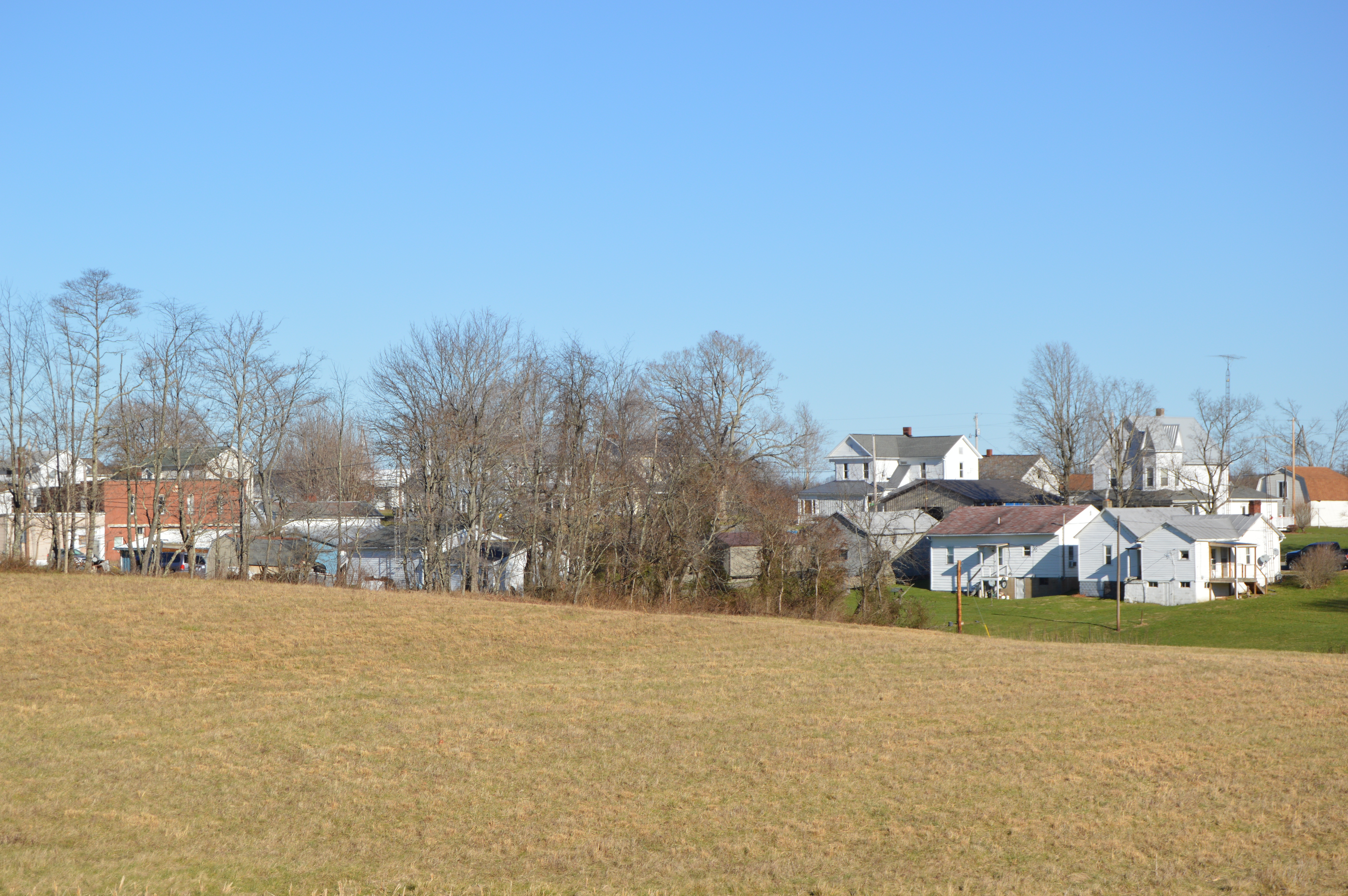 Looking northeast from State Route 145 south of the Methodist Church over houses on Mill Street in Stafford, Ohio, United States.